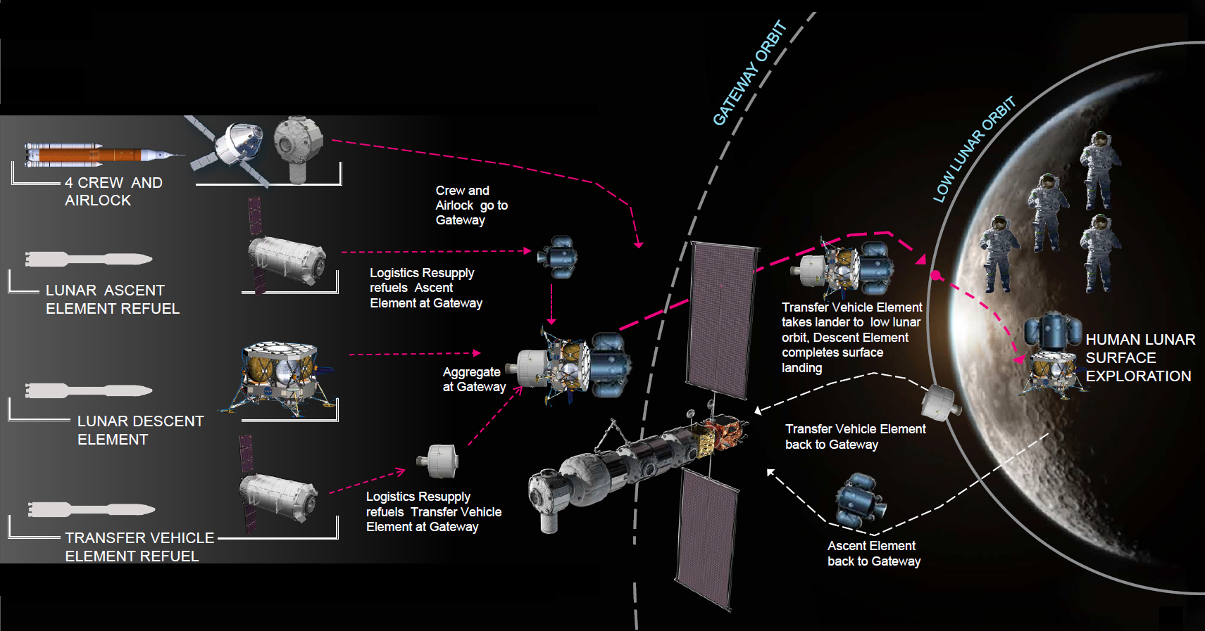 Artemis-program---Mission-Reference-Architecture-2028-(february--2019)